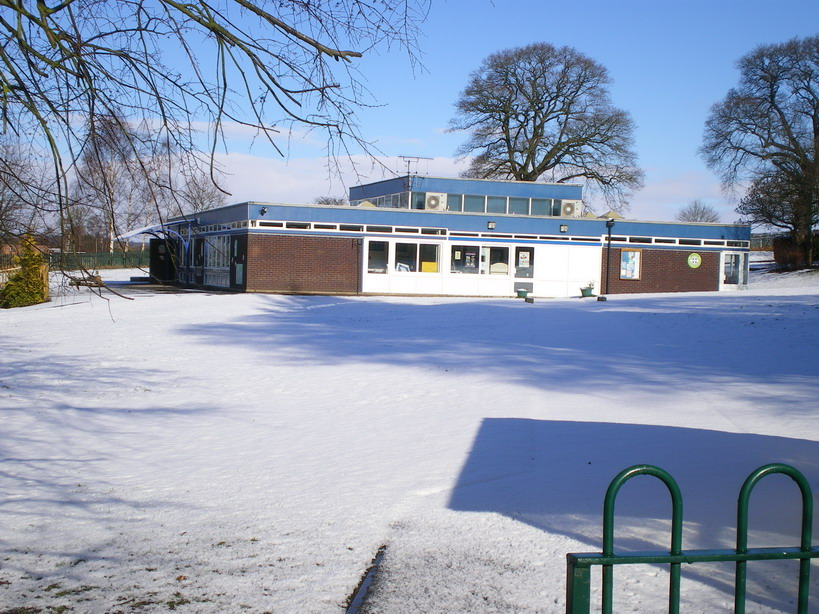 St Andrew's primary school, Nesscliffe The snow on the playground didn't last the morning, and certainly wouldn't have survived the first day back after half-term the next day.